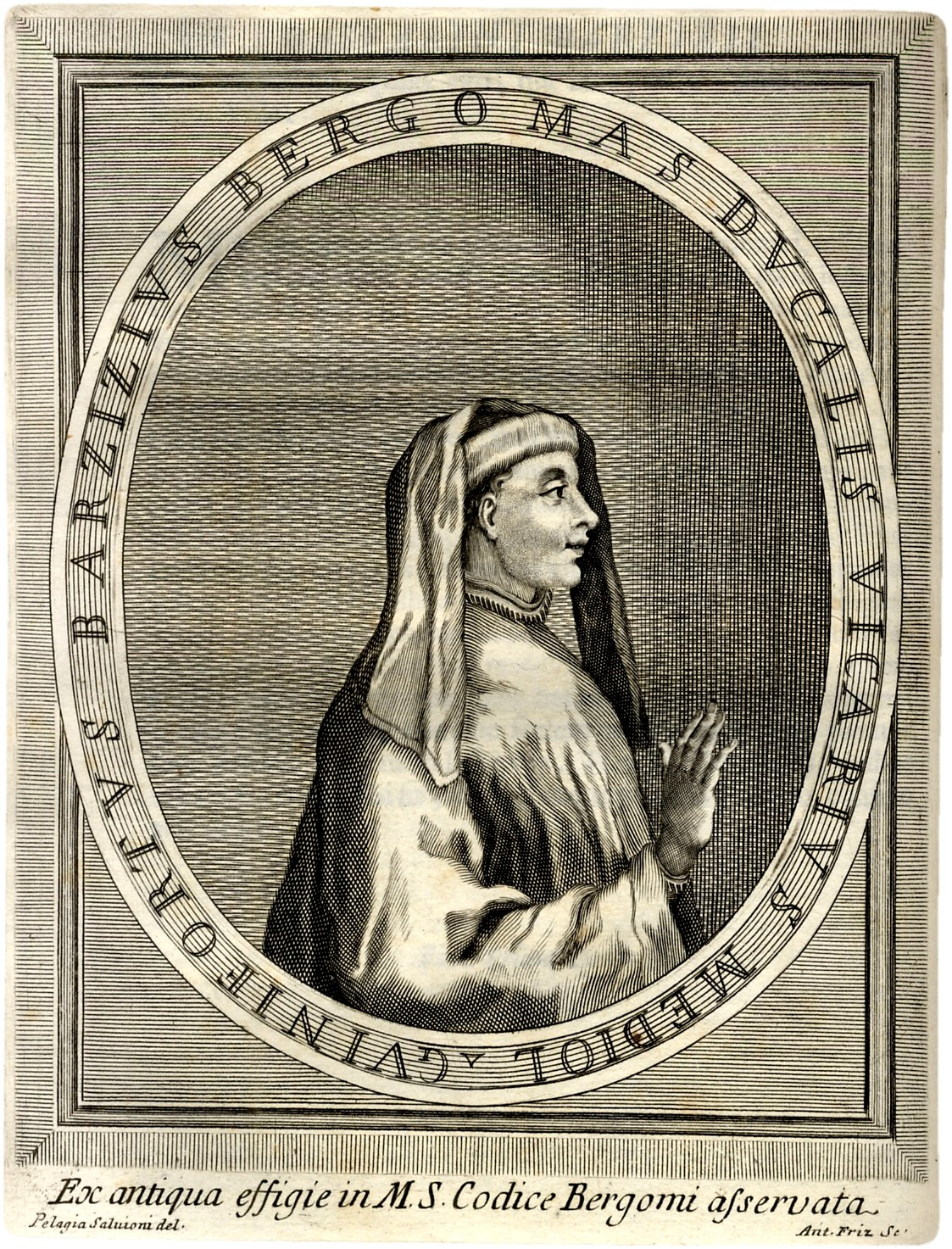 Portrait of Guiniforte Barzizza (Pavia, 1406 - Milan, 1463), Italian humanist scholar and teacher of Galeazzo Maria and Ippolita Maria Sforza. An earlier version of this engraving was published in Scena letteraria de gli scrittori bergamaschi in 1664. This reversed copy was made for the 1723 Gasparini Barzizii Bergomatis Et Guiniforti Filii Opera, and a copy was made in 1783 by Vincenzo Angelo Orelli, in oil on canvas.